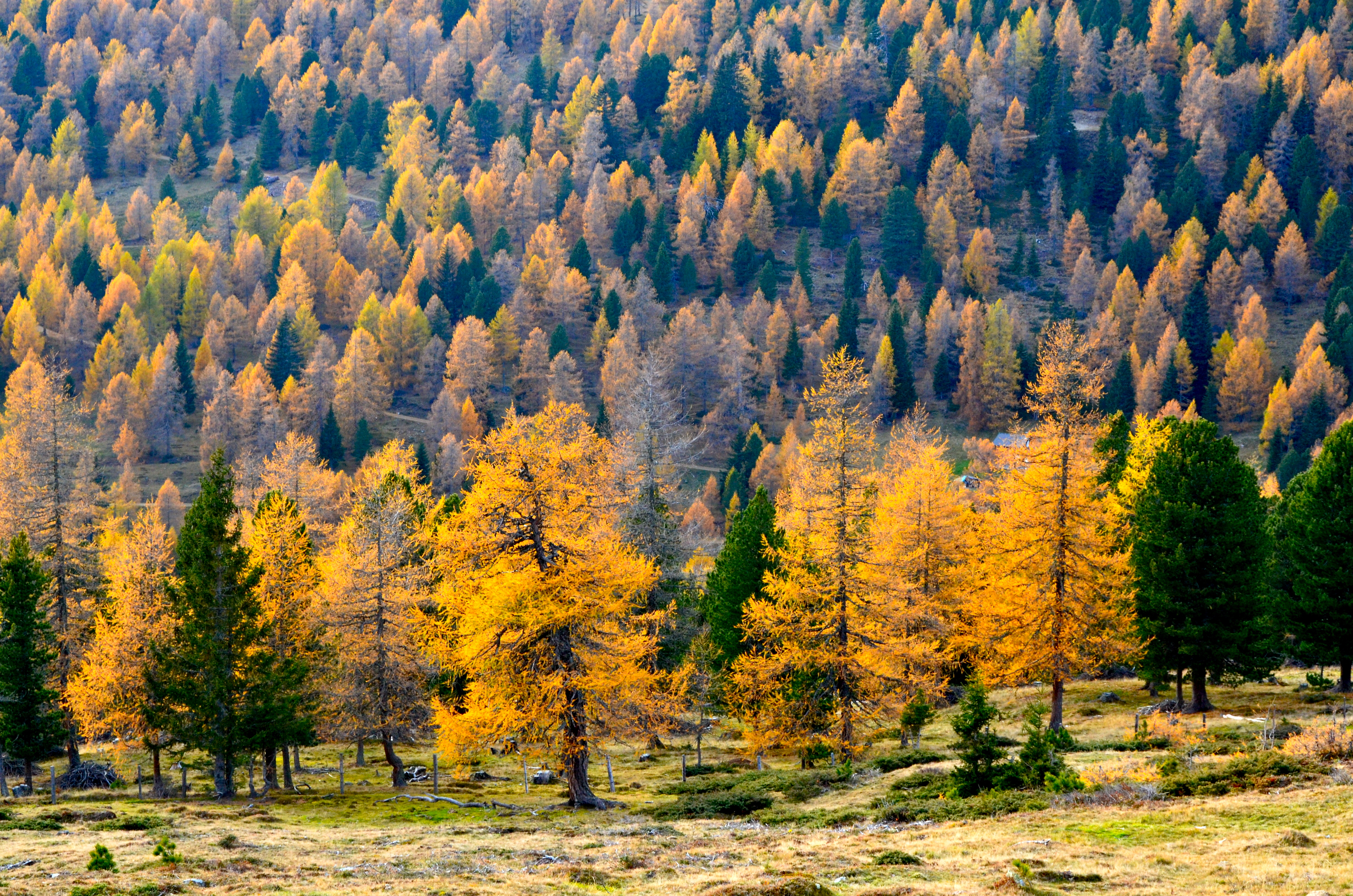 Autumnal forest with larches, spruces and arolla pines at Seebachern, municipality Albeck, district Feldkirchen, Carinthia, Austria, EU